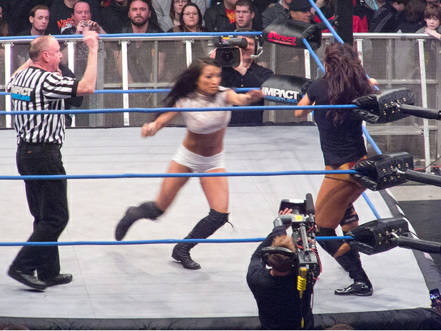 Kim and Tara in London 2010.